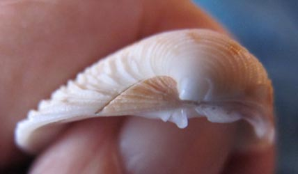 A right valve of Mercenaria campechiensis viewed from the top to show the lunule and umbo.